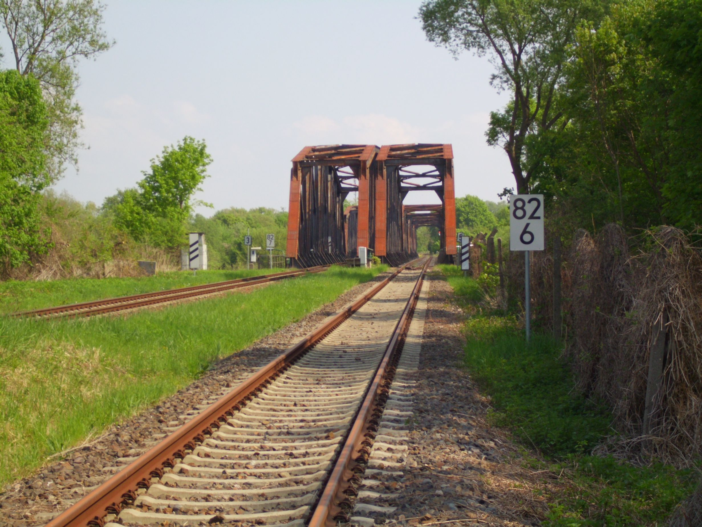 Küstrin-Kietz Oderinsel, Double railway bridge over the Oder River to the east